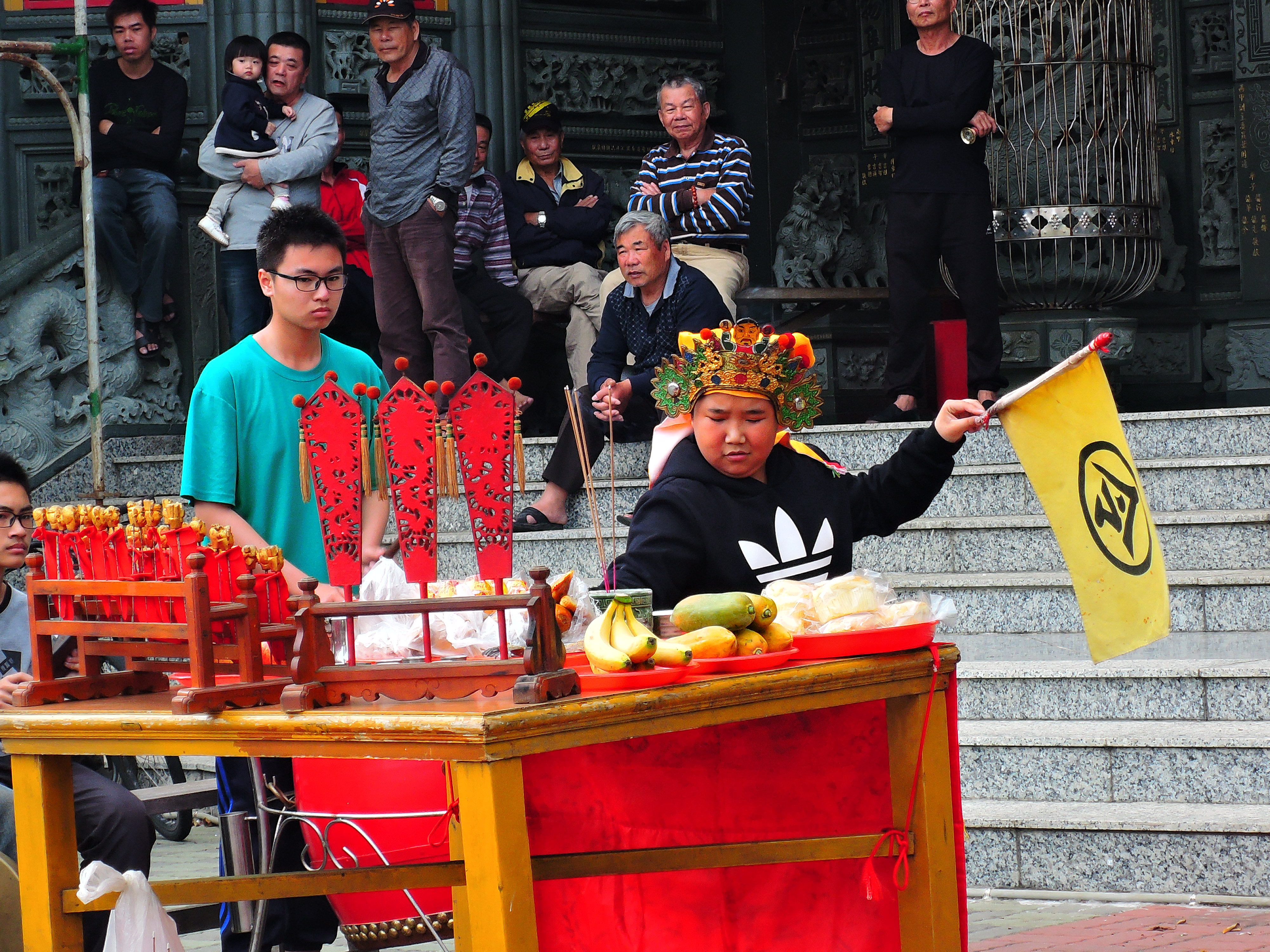 The Zushi Temple at Wen Ao, Penghu Taiwan